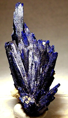 Azurite Locality: Morocco (Locality at ) An elegant spray of crystals to 4.5 cm, a very substantial specimen compared to the relatively dinky (though pretty) specimens that make up 99% of what comes from here. 6 x 3.8 x 2.6 cm